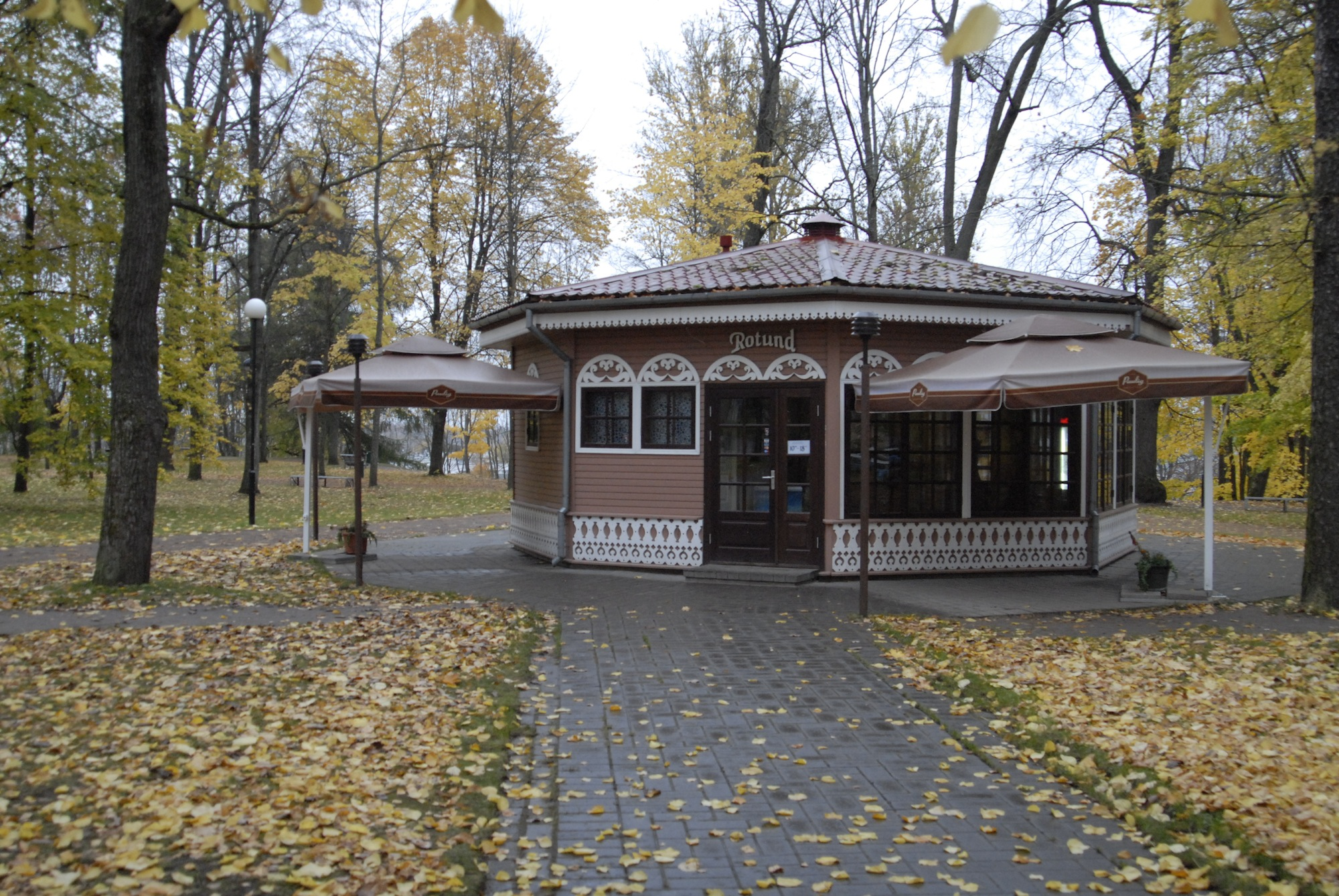 Tartu University area. Rotunda